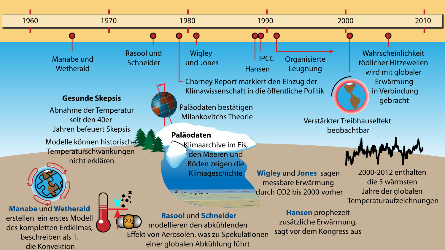 science timeline, 1960-2010